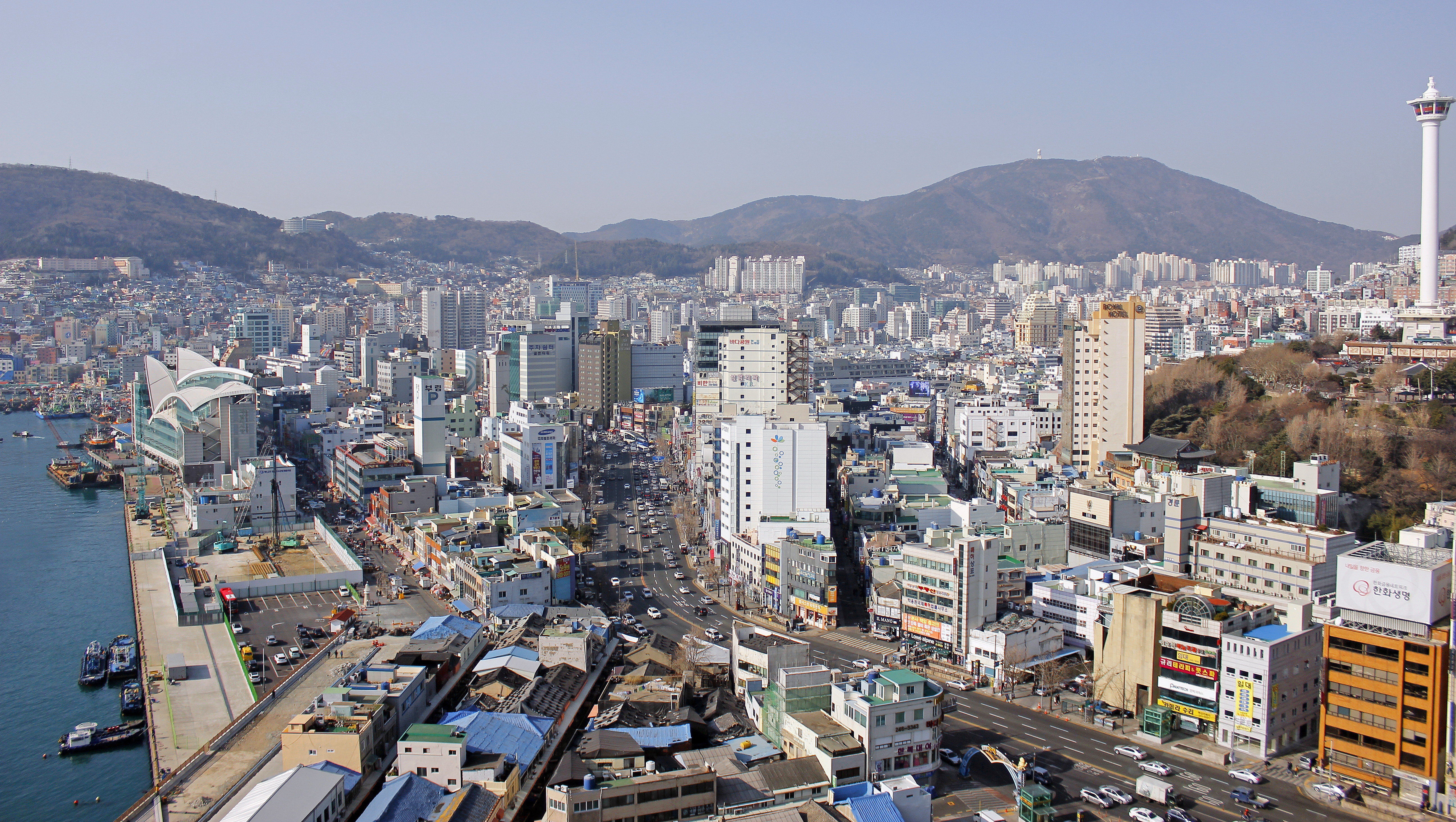 Nampo-dong, Jung-gu, Busan